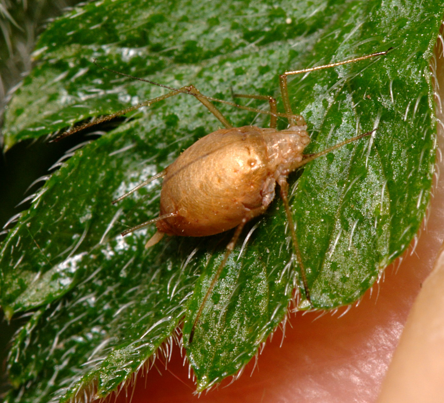 Dead aphid, parasitized by Aphidiinae (Braconidae), in Cologne, Germany.